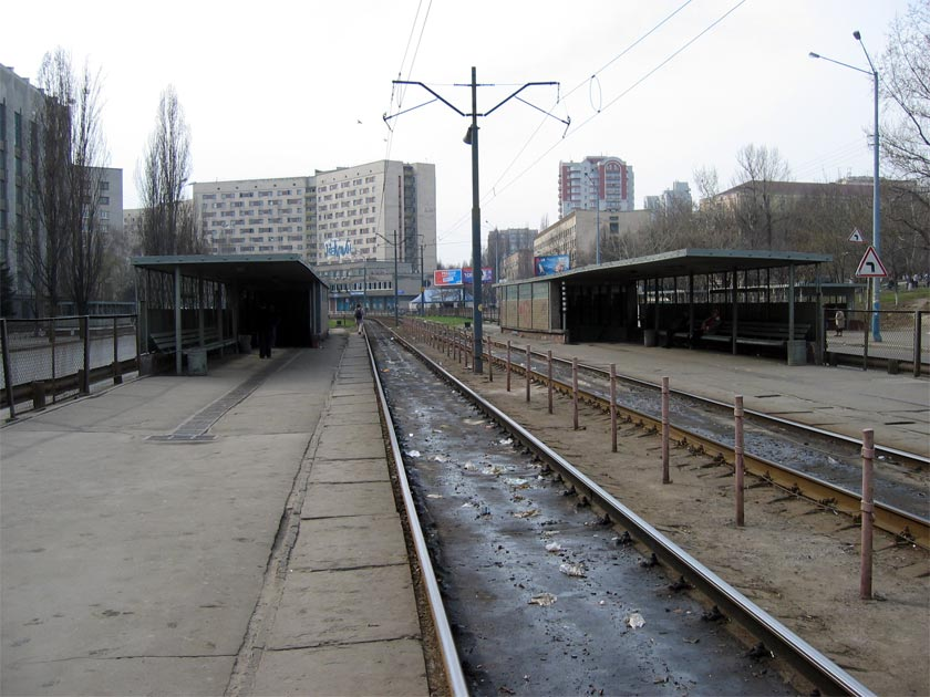 Poliova Station of Kyiv Fast Tram